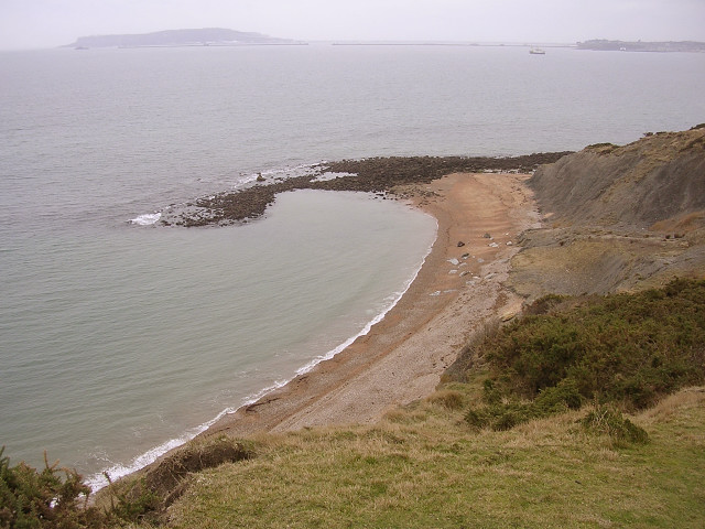 Redcliff Point from the clifftop, Weymouth Bay. Looking south from the clifftop (unstable!) with Redcliff Point in the middle ground and the Isle of Portland on the horizon. Locally resistant limestones within the Corallian Beds outcrop at the shore at this point to form a headland. Clays interbedded with the limestones have resulted in rotational landsliding, which disrupts the limestone beds delivering them to the shore as large boulders. As the clayey materials are removed by marine erosion the limestones are left as a protective boulder apron at the cliff toe. Info from